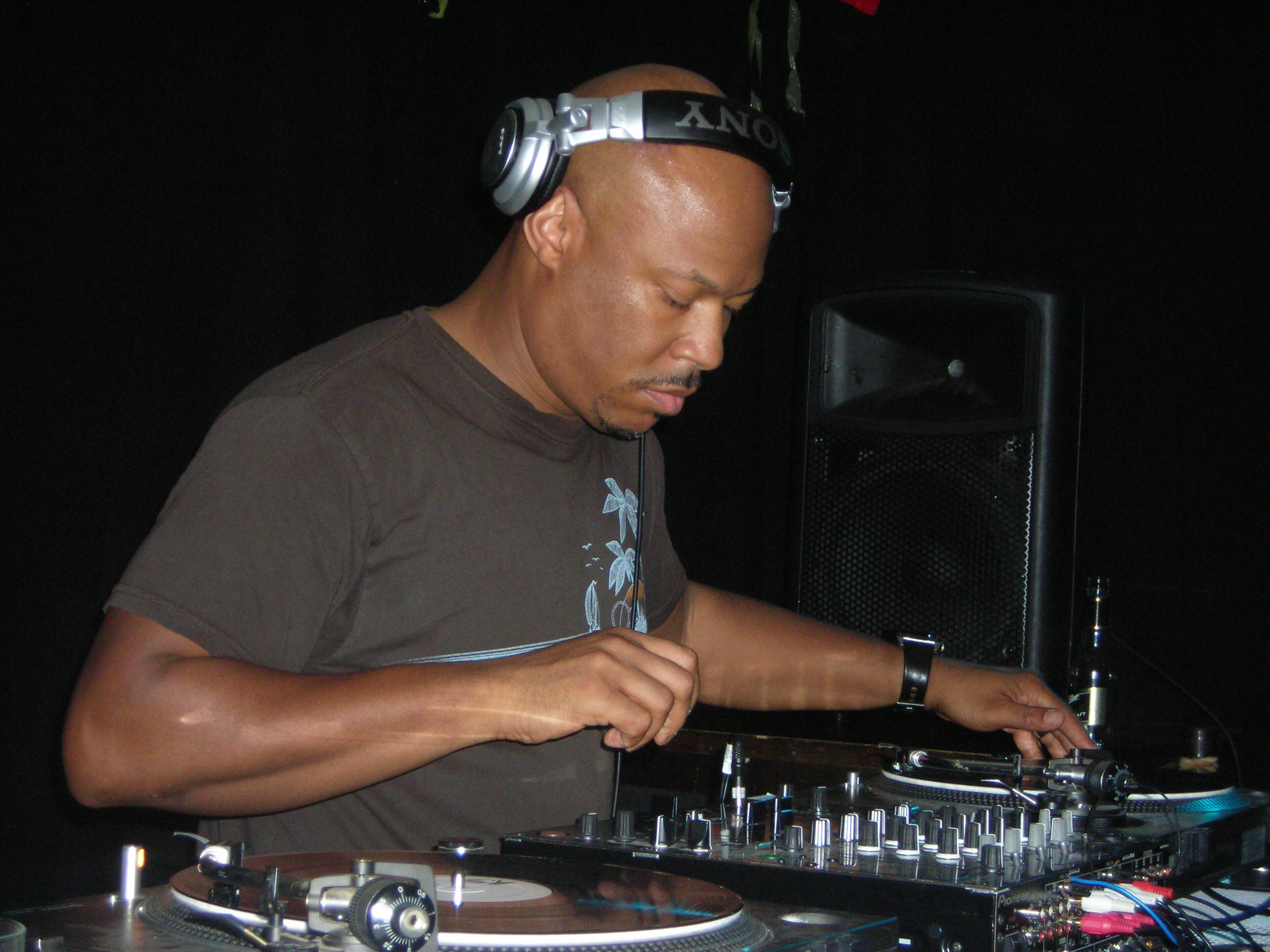 Robert Hood playing Live at Kennedys, Dublin, Ireland on April 24th, 2009.